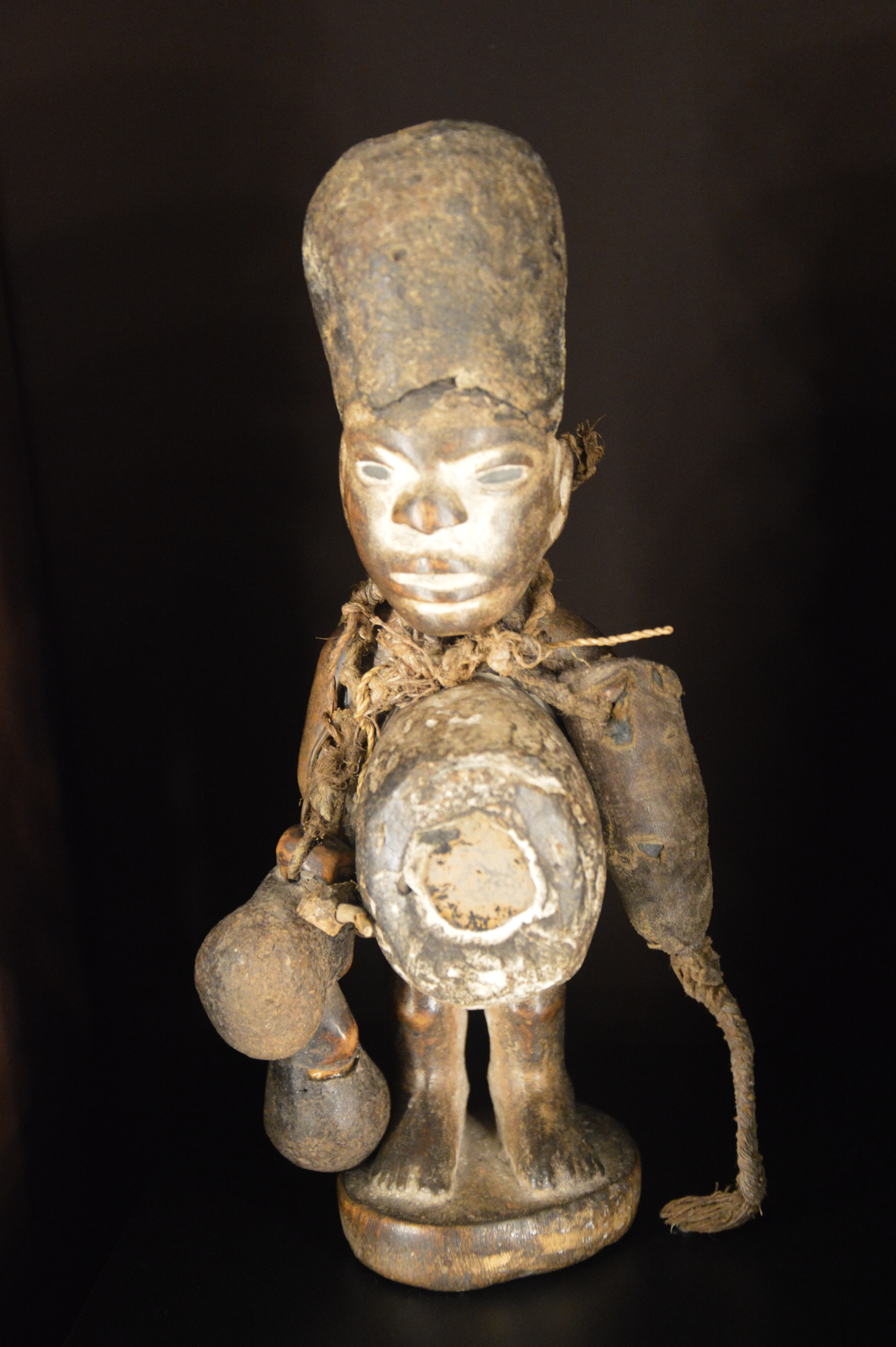 Power figure. Kongo. Congo